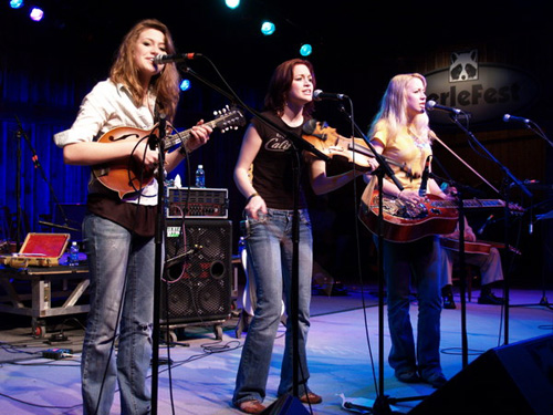 The Lovell Sisters perform on the Watson Stage at MerleFest 2007.